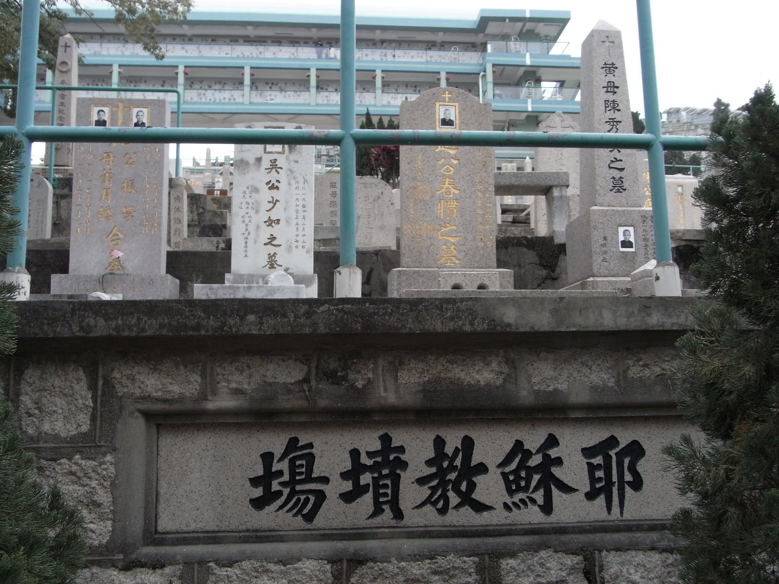 九龍城聯合道香港華人基督教聯會zh:華人基督教墳場, 又名zh:耶穌教墳場